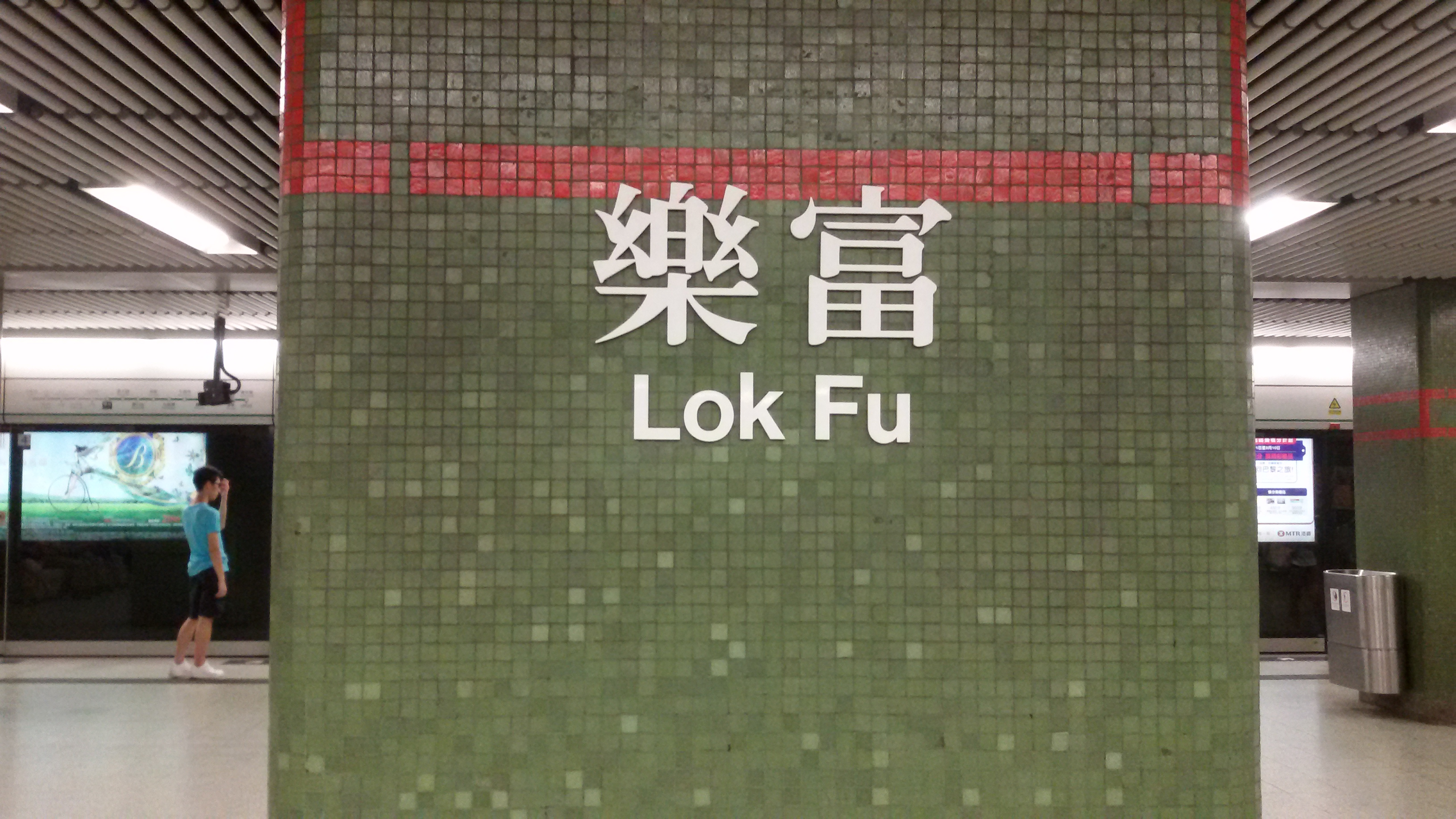 Station Name on PILLAR for Lok Fu Station in HKMTR